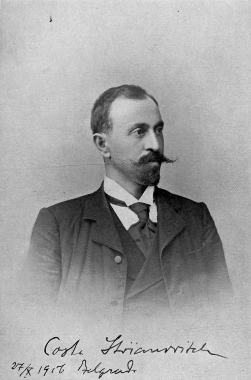 Original description: "His Excellency Costa Stoyanovitch – Servian Minister of Commerce"